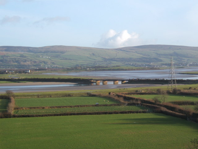 Distant view of Duddon railway bridge, from the northwest